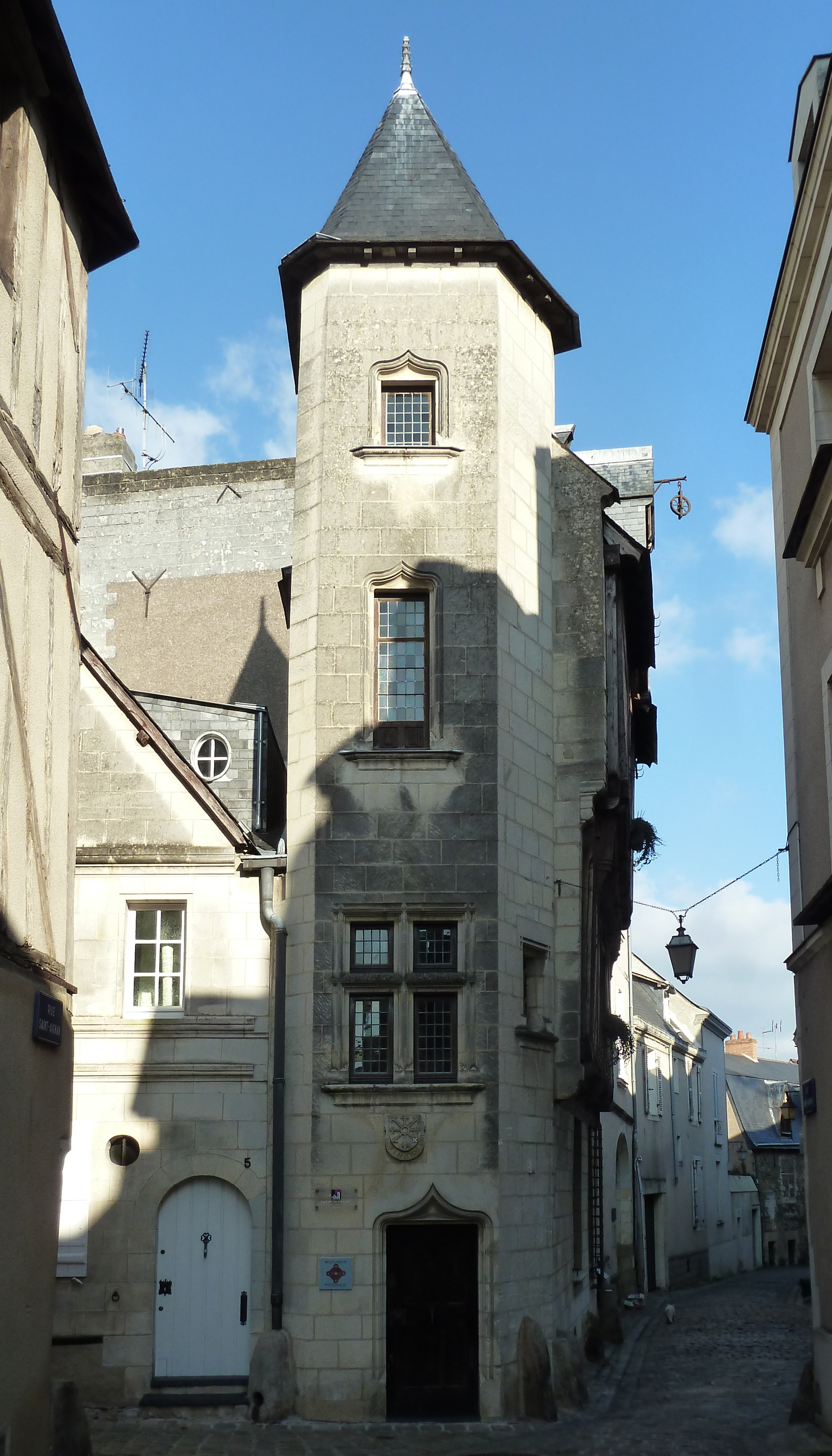 Stair tower of the Maison du Croissant (House of the Crescent), a 15th and 16th centuries house, 7 rue des Filles-Dieu in Angers, Maine-et-Loire, Pays de la Loire, France.